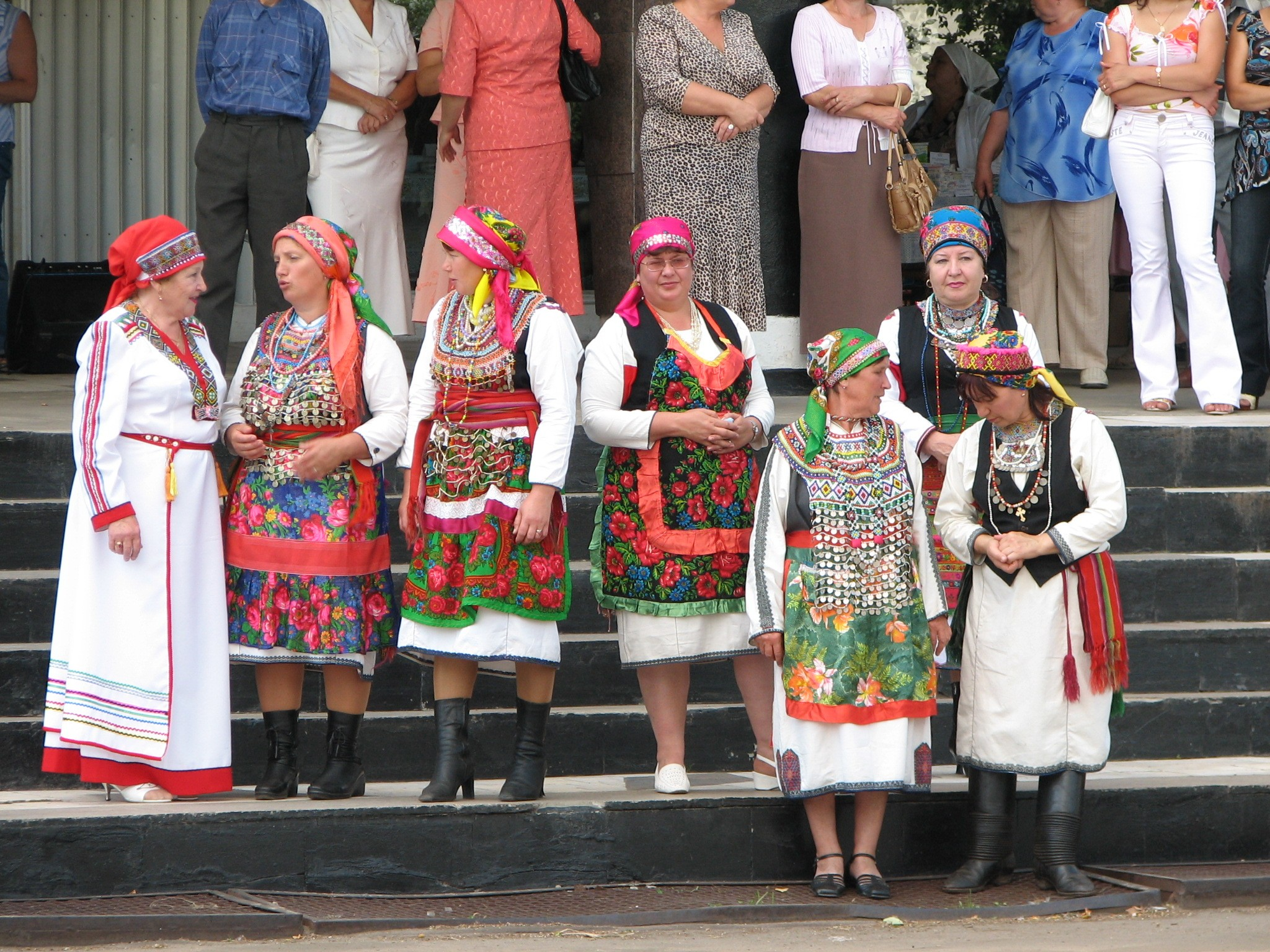 Women from Zubu in traditional Moksha clothes